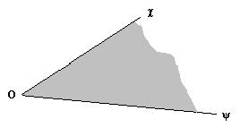 Angle